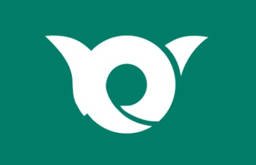 Flag of Yasuda Kochi